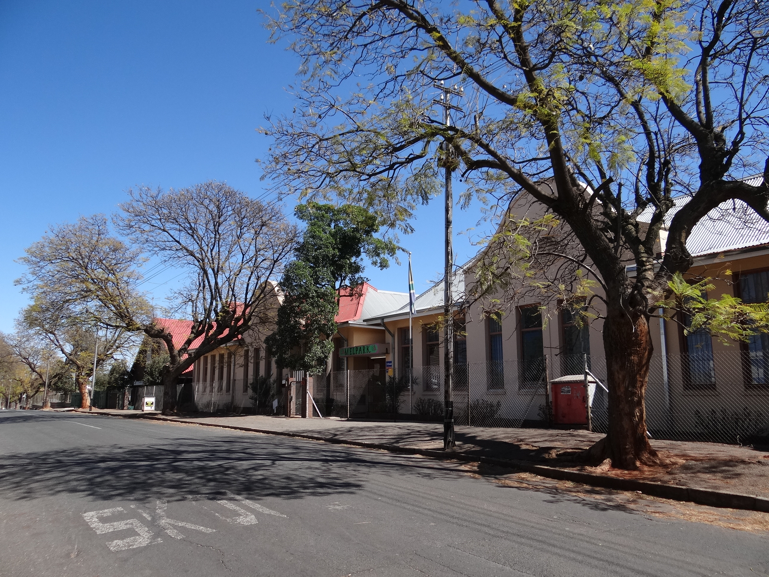 This media shows a South African Protected Site with SAHRA file reference 9/2/228/0082.